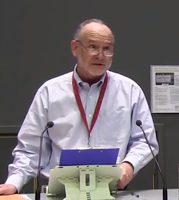 Professor James Ferguson from Stanford University delivering the inaugural Institute of Development Studies Annual Lecture entitled 'Not Working: Rethinking Production and Distribution in the Jobless City' at University of Sussex on July 5, 2016.